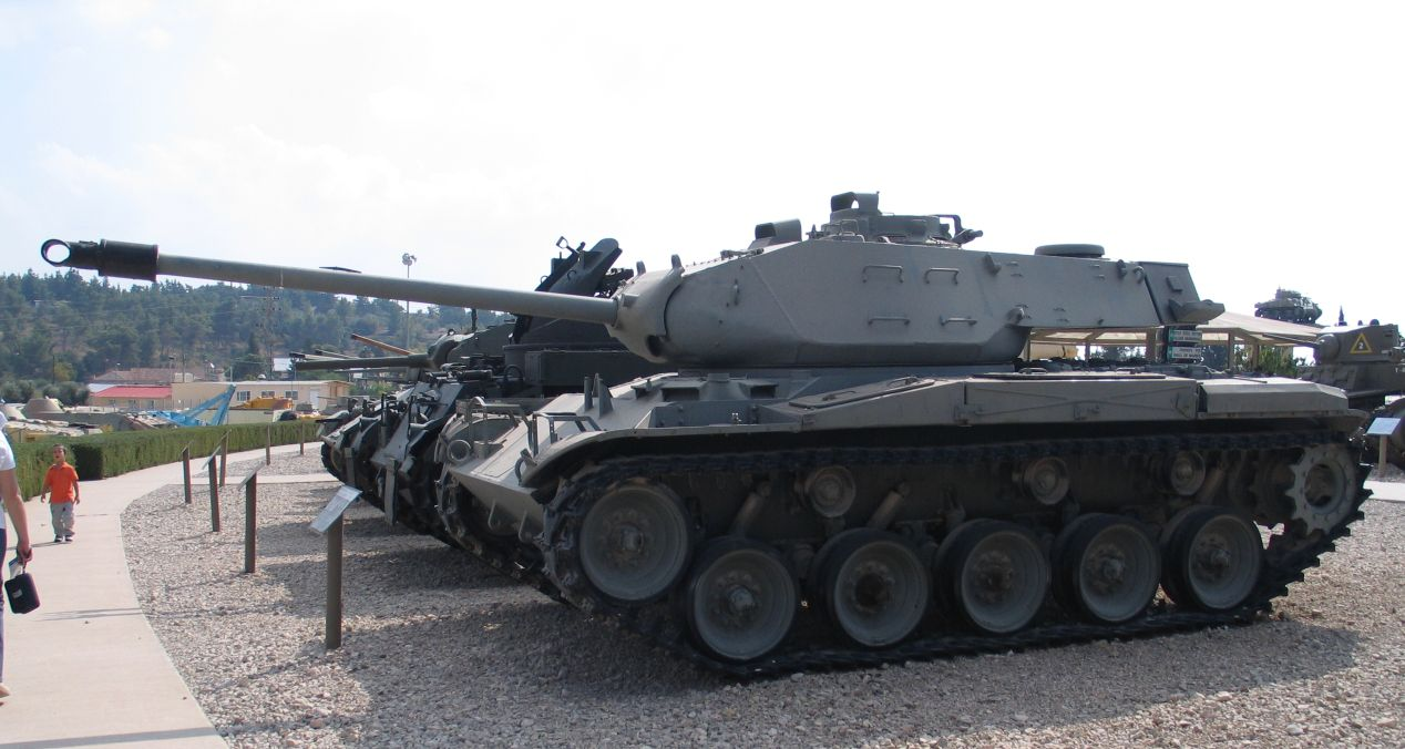 M41A3 Walker Bulldog light tank in Yad la-Shiryon Museum, Israel, 2005.